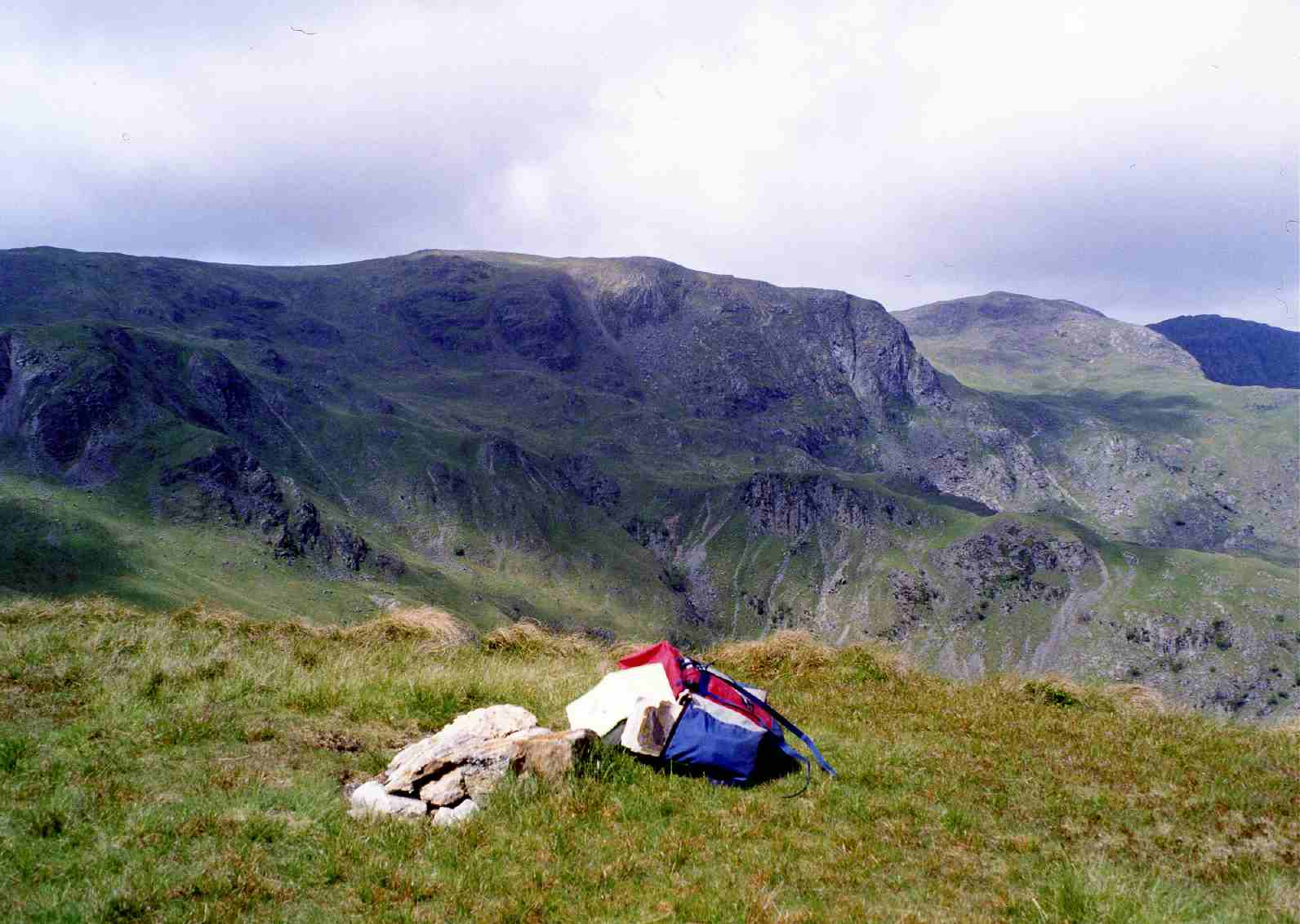 Dove Crag from High Hartsop Dodd, 2 km to the east Personal picture taken by Mick Knapton